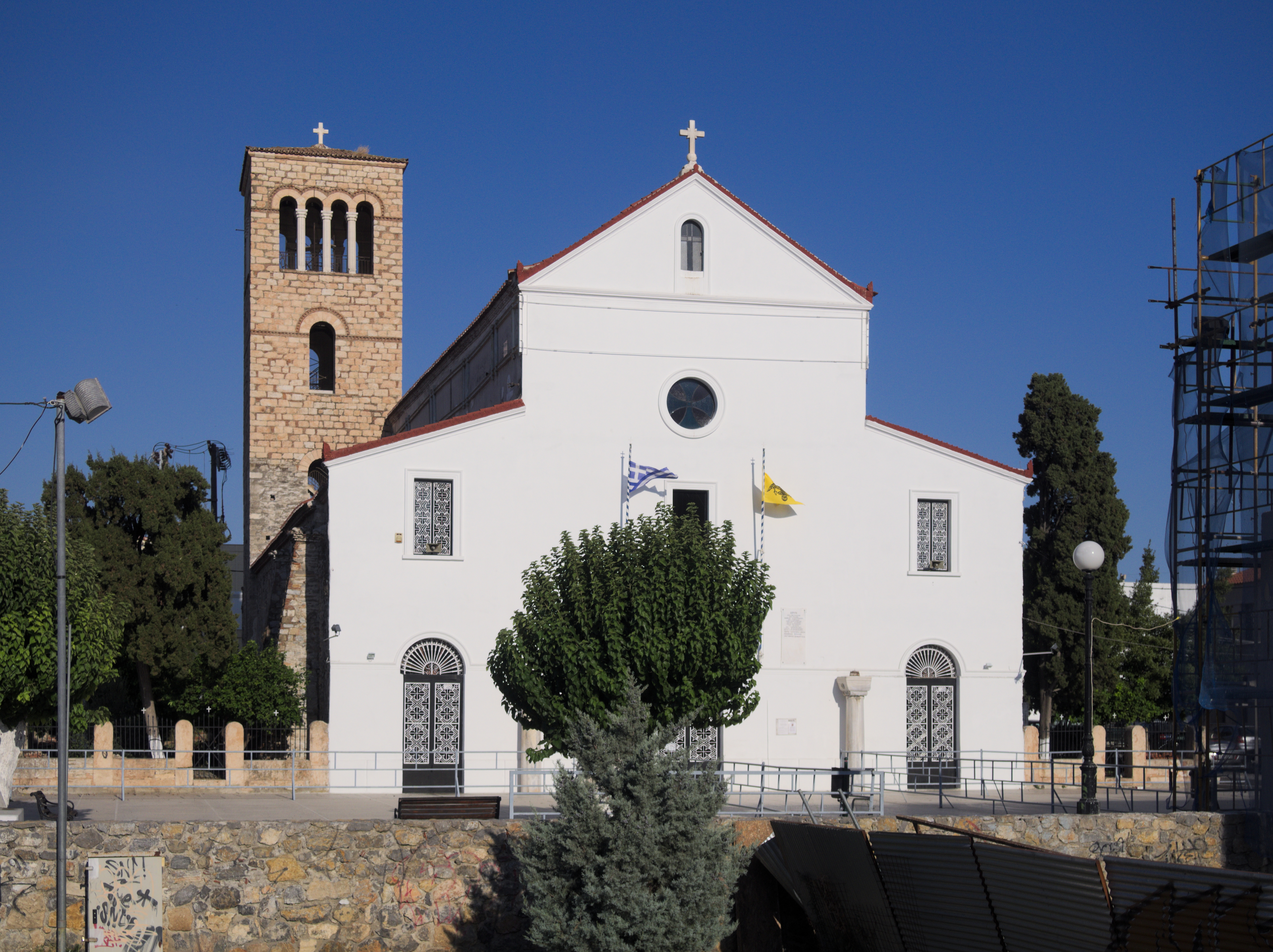 View of the west facade of Agia Paraskevi church, Chalkida. The current church was built in 13th century and the current form of the west facade dates from 1853.